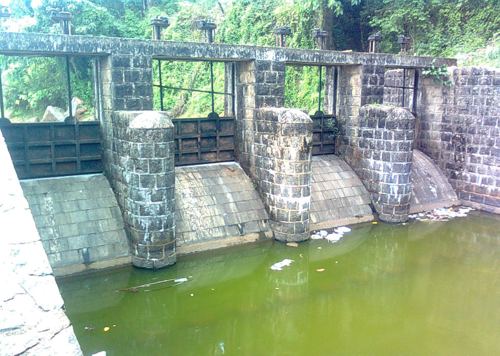 പൂമല This media file is uploaded with Malayalam loves Wikimedia event - 2.